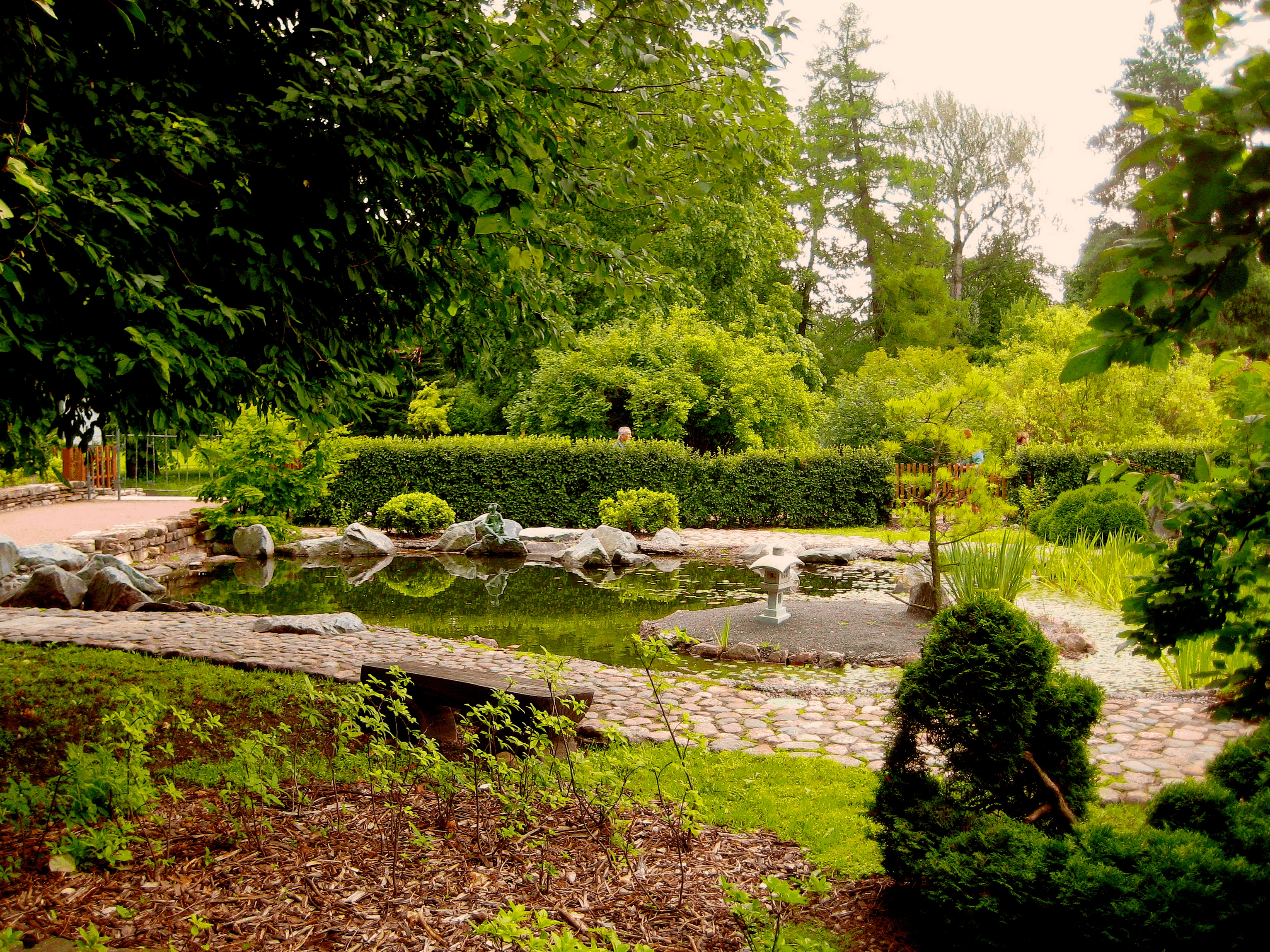 Botanical Garden of the V.L.Komarov Botanical Institute of the Russian Academy of Sciences: between the Aptekarskaya Embankment, the Karpovka River embankment, the Aptekarsky Prospekt and Professor Popova Street, Petrogradsky District, St. Petersburg This image is related to the protected area of Russia number 7800036